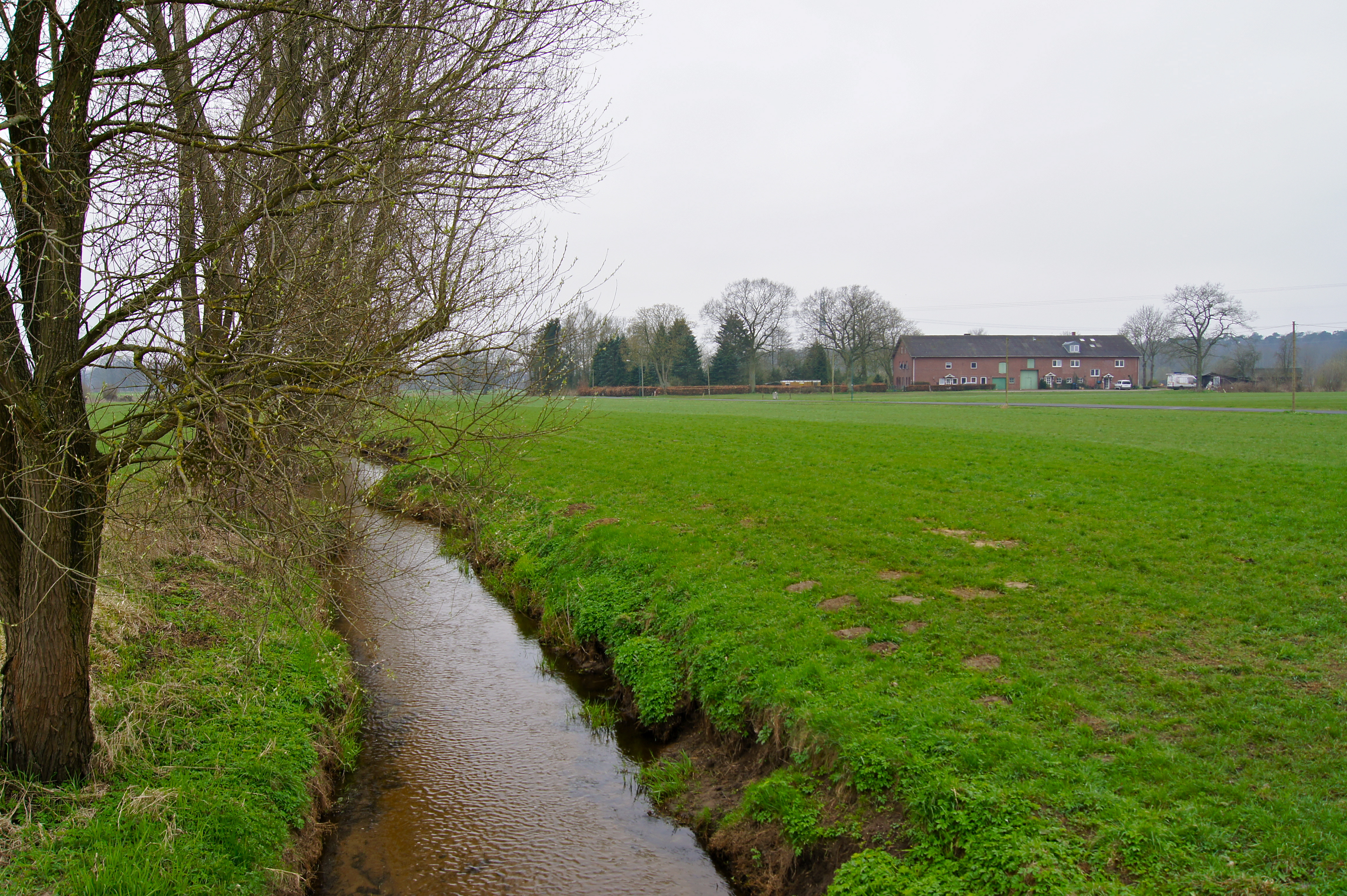 Bilsen (Bilsen), Germany: Farm at the Pinnau